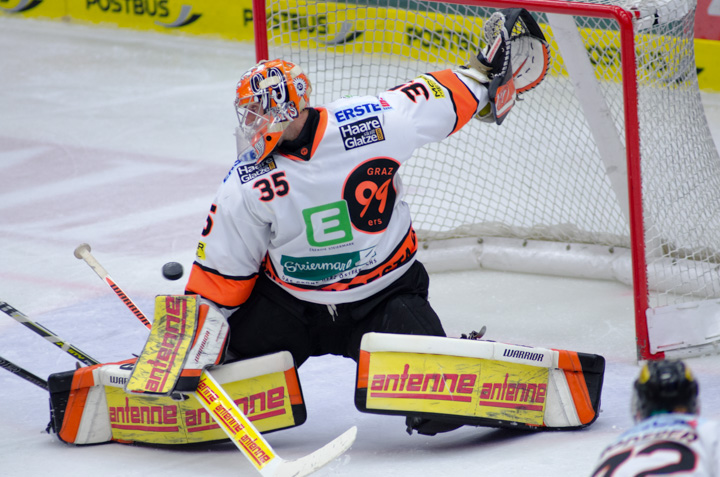 25.10.2013, Stadthalle Villach, AUT, EBEL, 28. Runde, EC VSV vs. Graz 99ers, im Bild Dany Sabourin, (99ers #35),// frostworx Pictures © 2013, PhotoCredit: frostworx / Alex Micheu